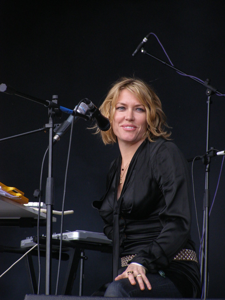 Cerys Matthews performing at the Park Stage at Glastonbury 2008